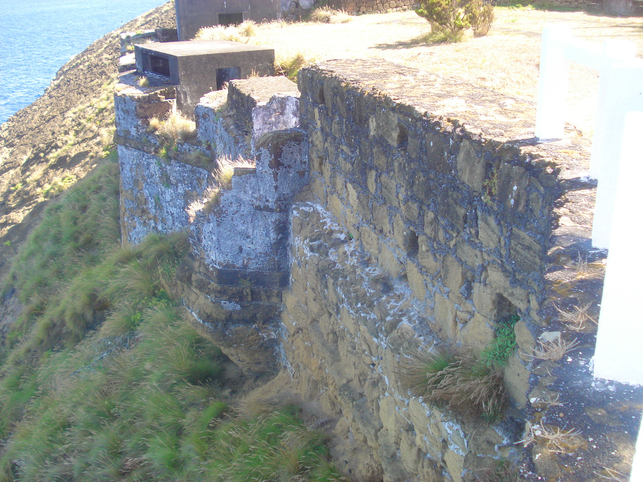 Detail of the ruined walls of the Fort of Greta, civil parish of Angústias, municipality of Horta (Azores), Portugal